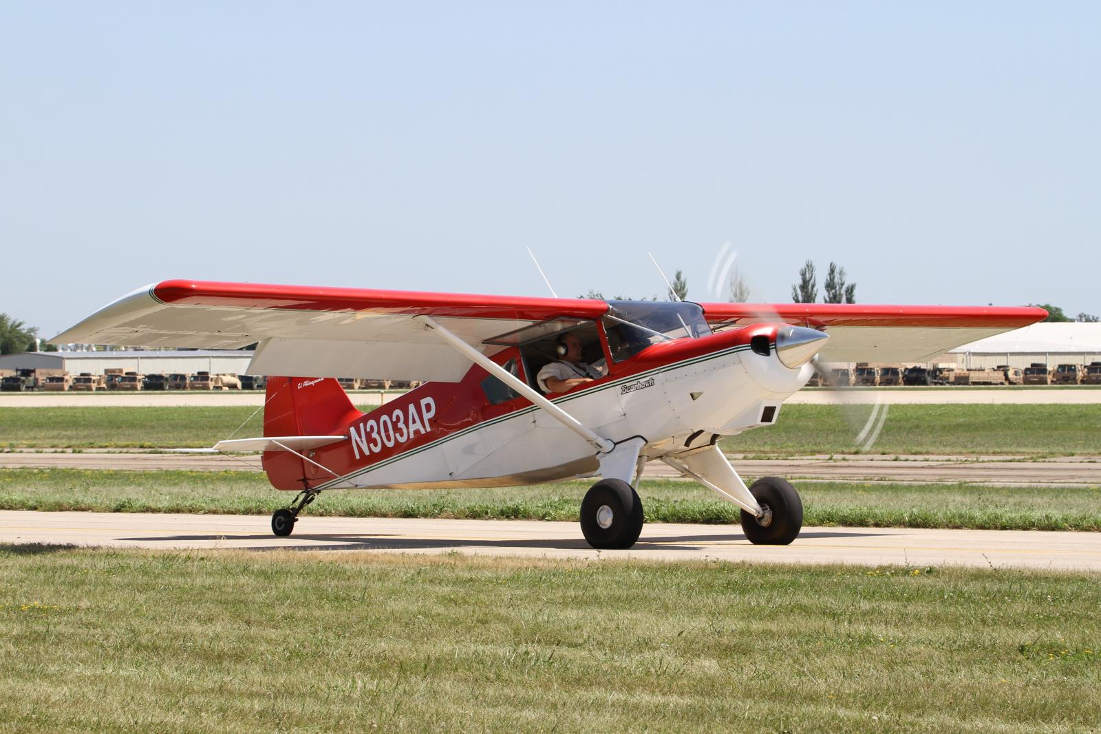 Avipro Bearhawk (N303AP)